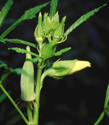 Cropped version of Image:Abelmoschus esculentus.jpg, a picture of the okra plant with flower bud and immature seed pod. Image Number: 96cs2482 CD3035-43